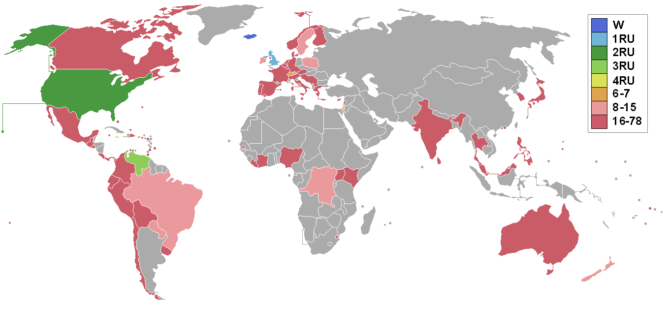 Countries that sent delegates to the 1985 Miss World competition. Origin countries of the winner and runners up are color coded.